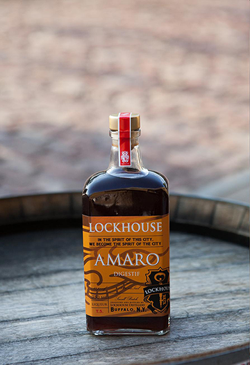 Lockhouse Amaro